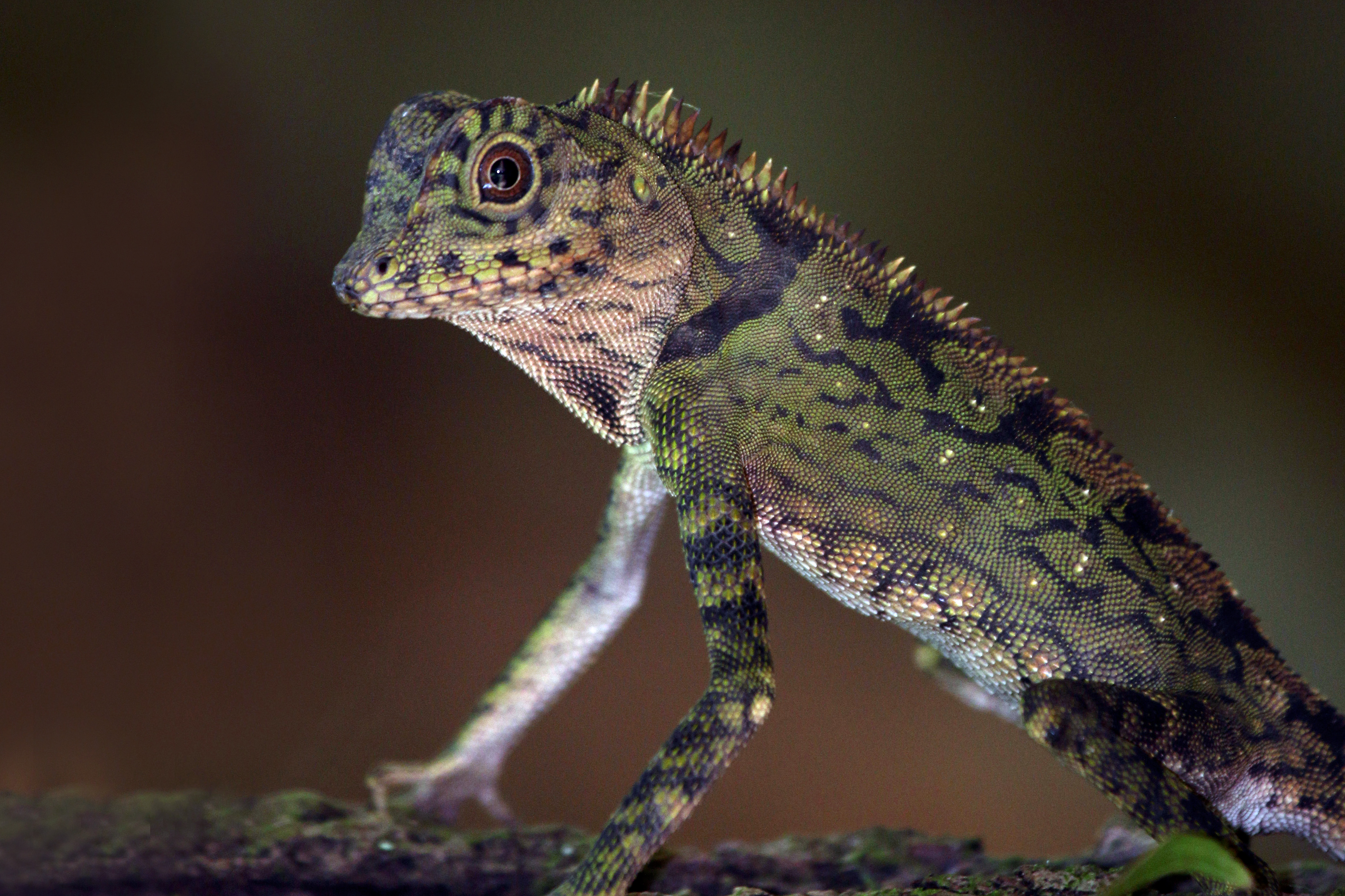 Borneo anglehead lizard (Forest dragon) (Gonocephalus bornensis), male, Danum Valley Conservation Area, Sabah, Malaysia